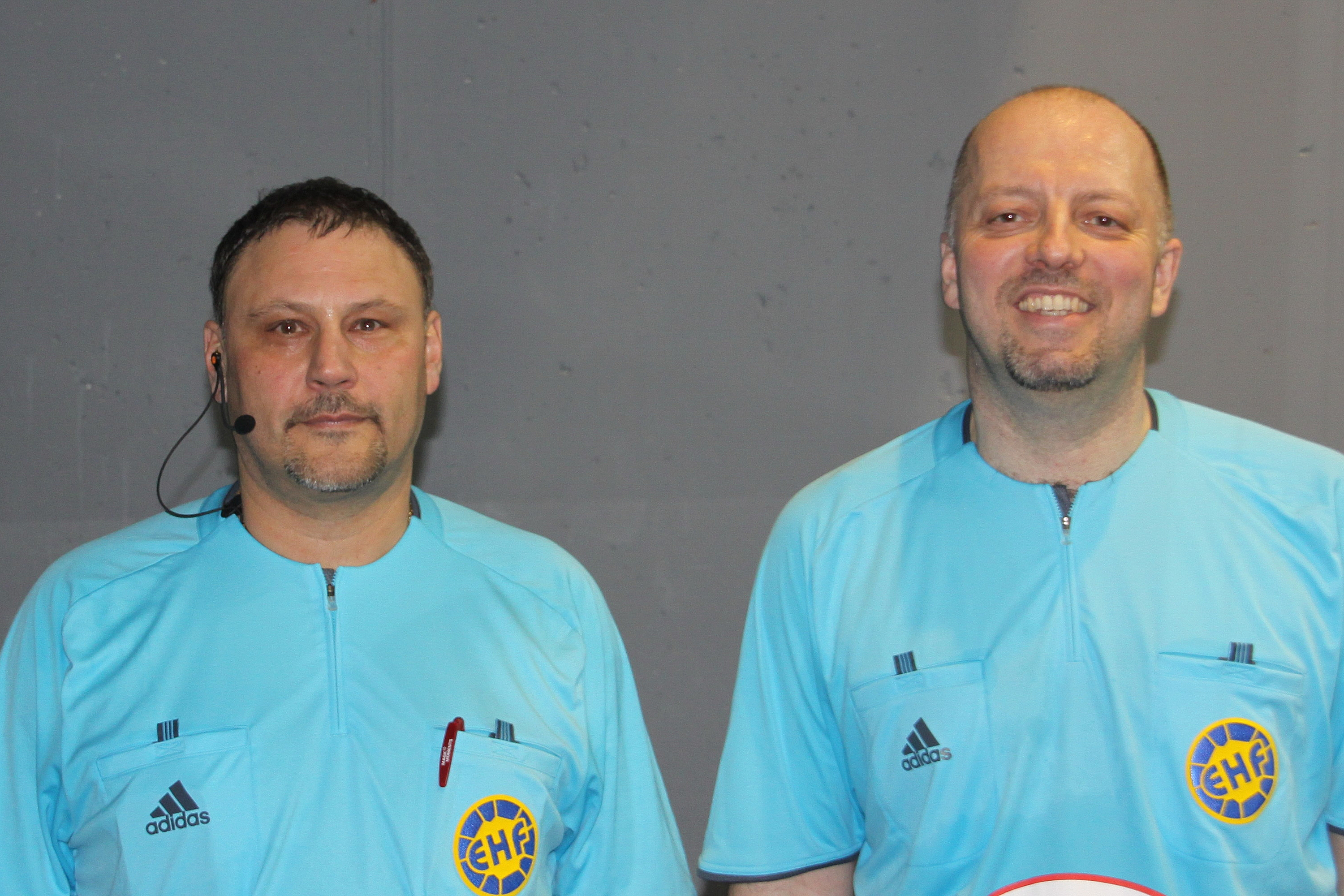 Gerhard Reisinger (left) and Christian Kaschütz (Austria), Referees of the 2010 European Men's Handball Championship